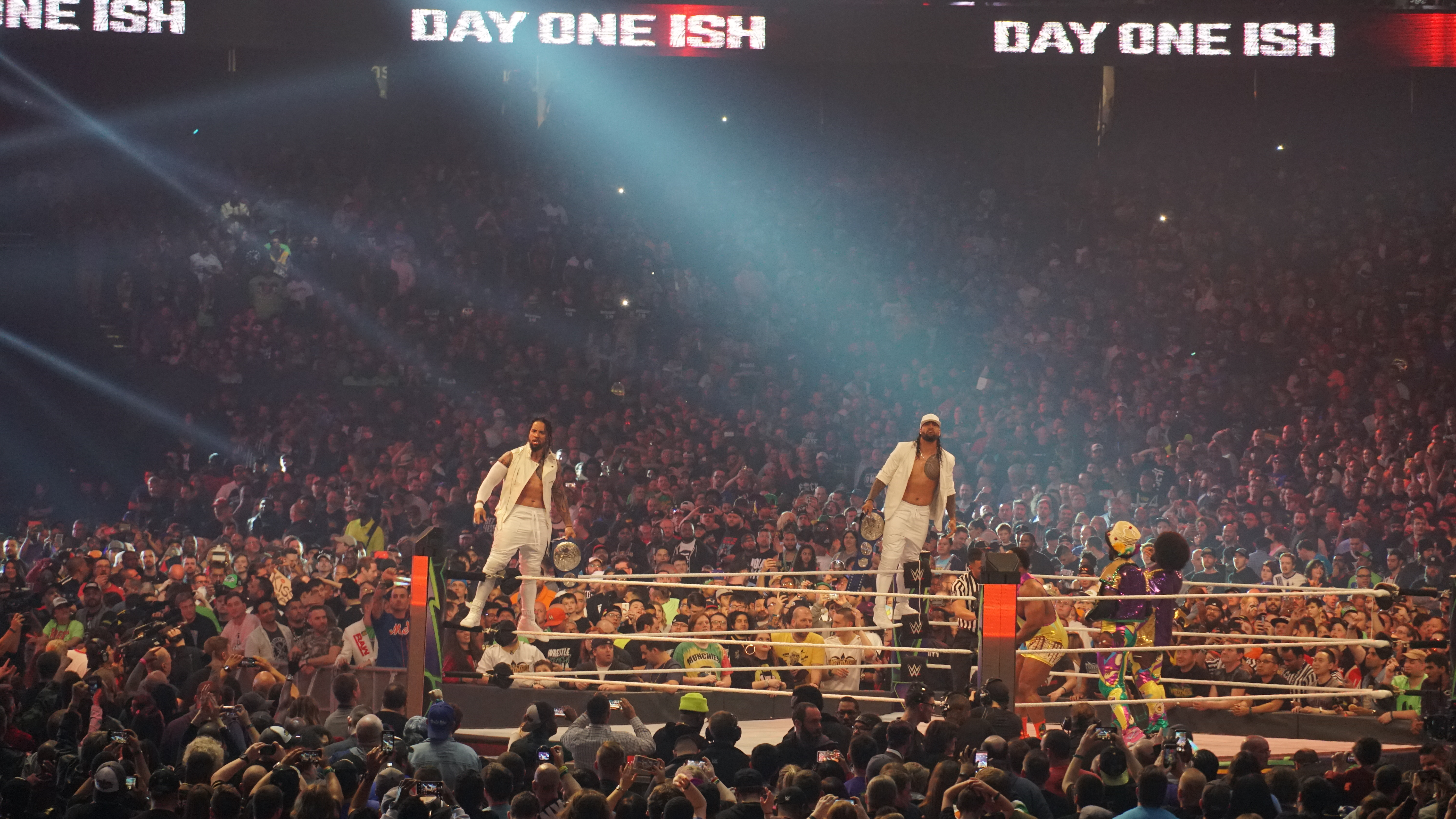 WWE SmackDown Tag Team Champions The Usos at WrestleMania 34.